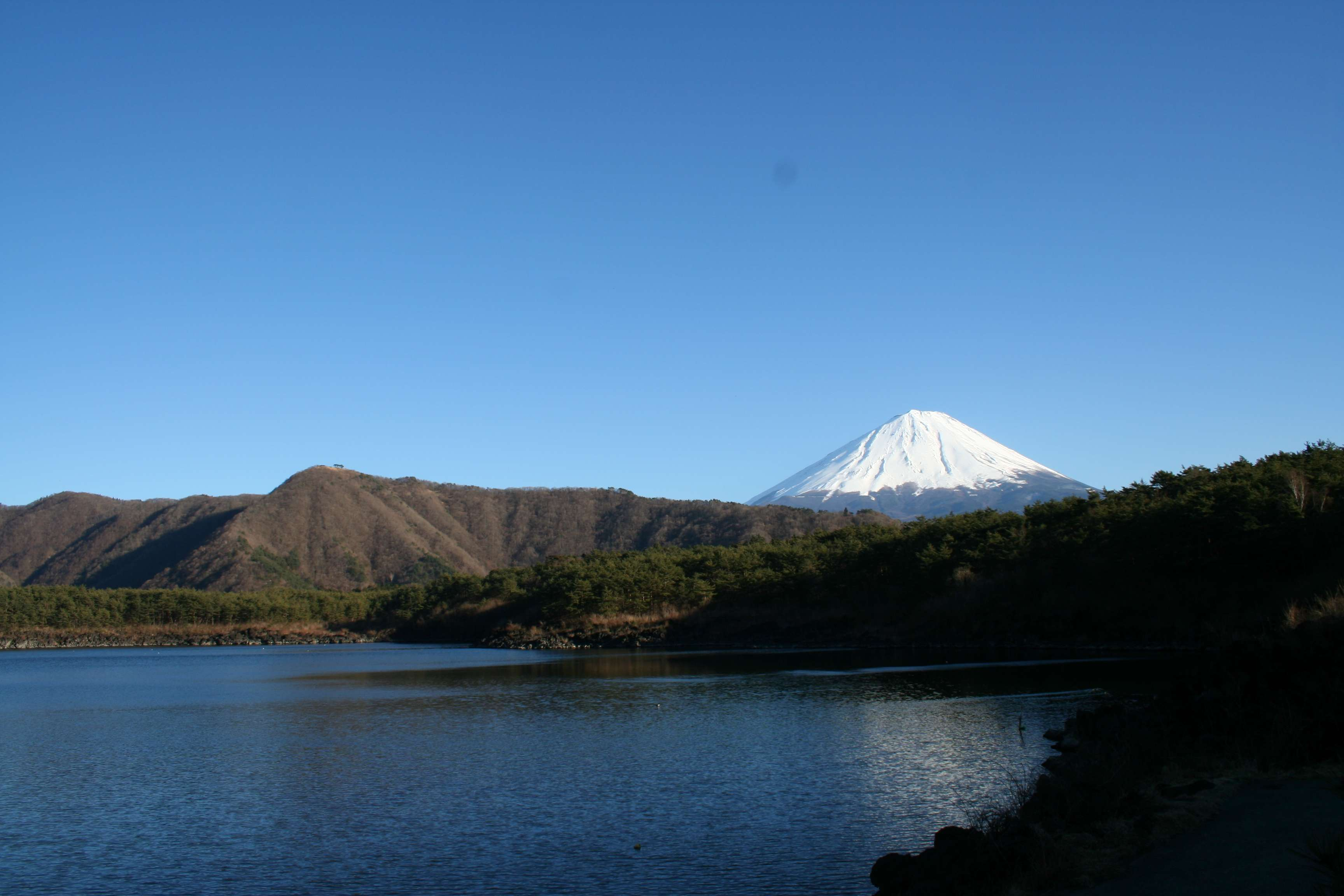 Lake Sai from West End, with mount fuji in background. This lake is very little developed as compared to lake Kawaguchiko.